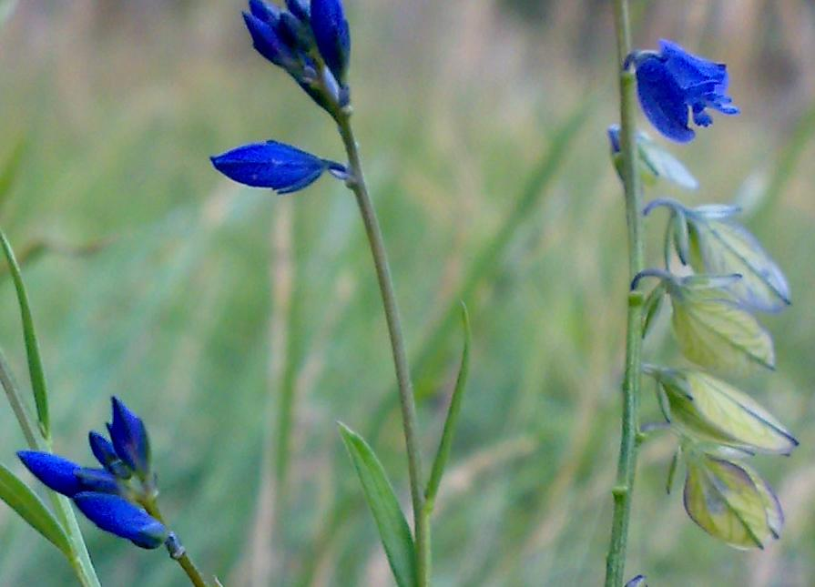 Polygala vulgaris in Hurum, Norway